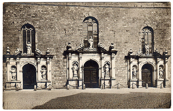 Black and white photograph of the Saint Peter's Church in Riga, Latvia.